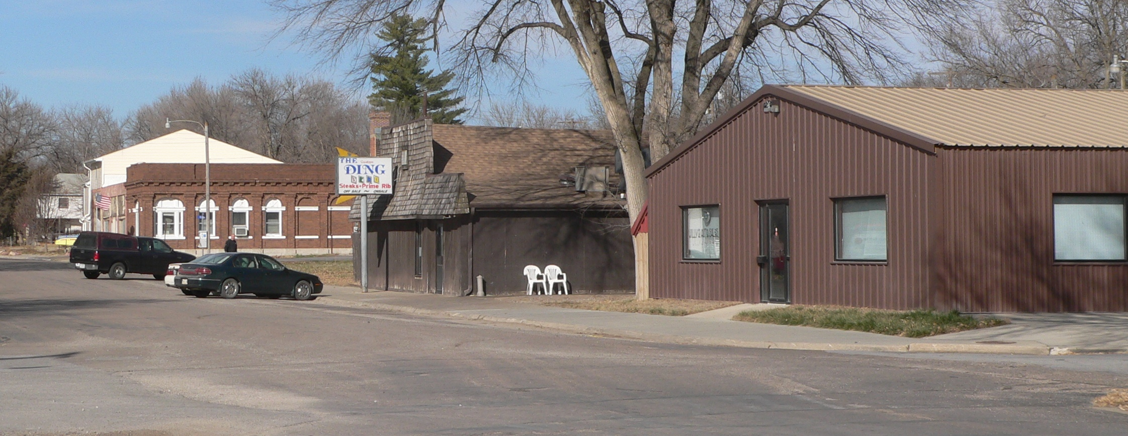 Downtown Raymond, Nebraska: First Street.